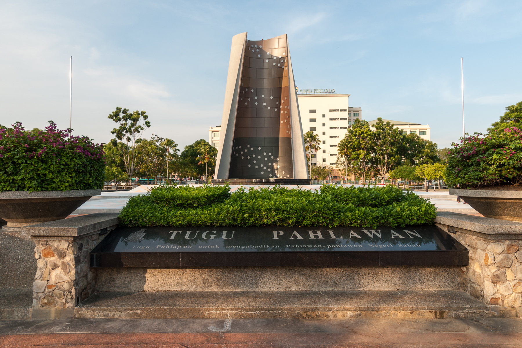 Kota Kinabalu, Sabah: Monument of the Heroes (Tugu Pahlawan). Dedicated to immortalize the warriors of the Sabah State.